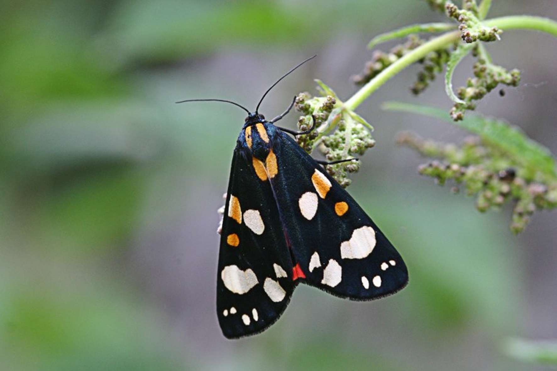 Camouflaged Scarlet tiger moth (Callimorpha dominula)